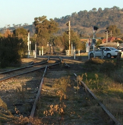 Former Cudgewa railway line, Victoria, at the Lawrence Street level crossing, east of the former Wodonga turning triangle. The line is dual gauge, however the broad gauge line is disconnected and disused, and only the standard gauge line (which converges from the left of this photo and extends only as far as Bandiana) is still in use.